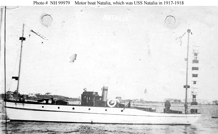 The private motorboat natalia sometime prior to her United States Navy service as the patrol vessel